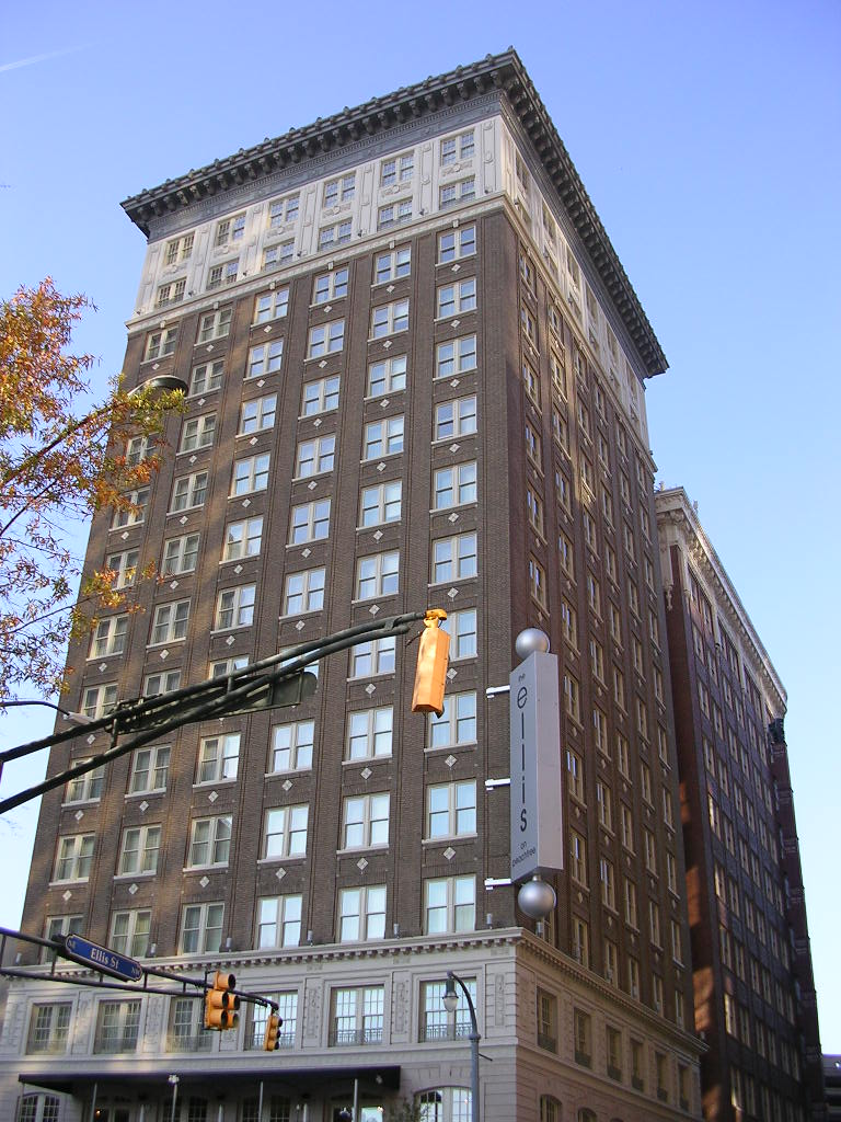 The Ellis Hotel (formerly the Winecoff Hotel) at 176 Peachtree Street, NW, Atlanta, Georgia. 33°45′30″N 84°23′16″W / 33.75833°N 84.38778°W